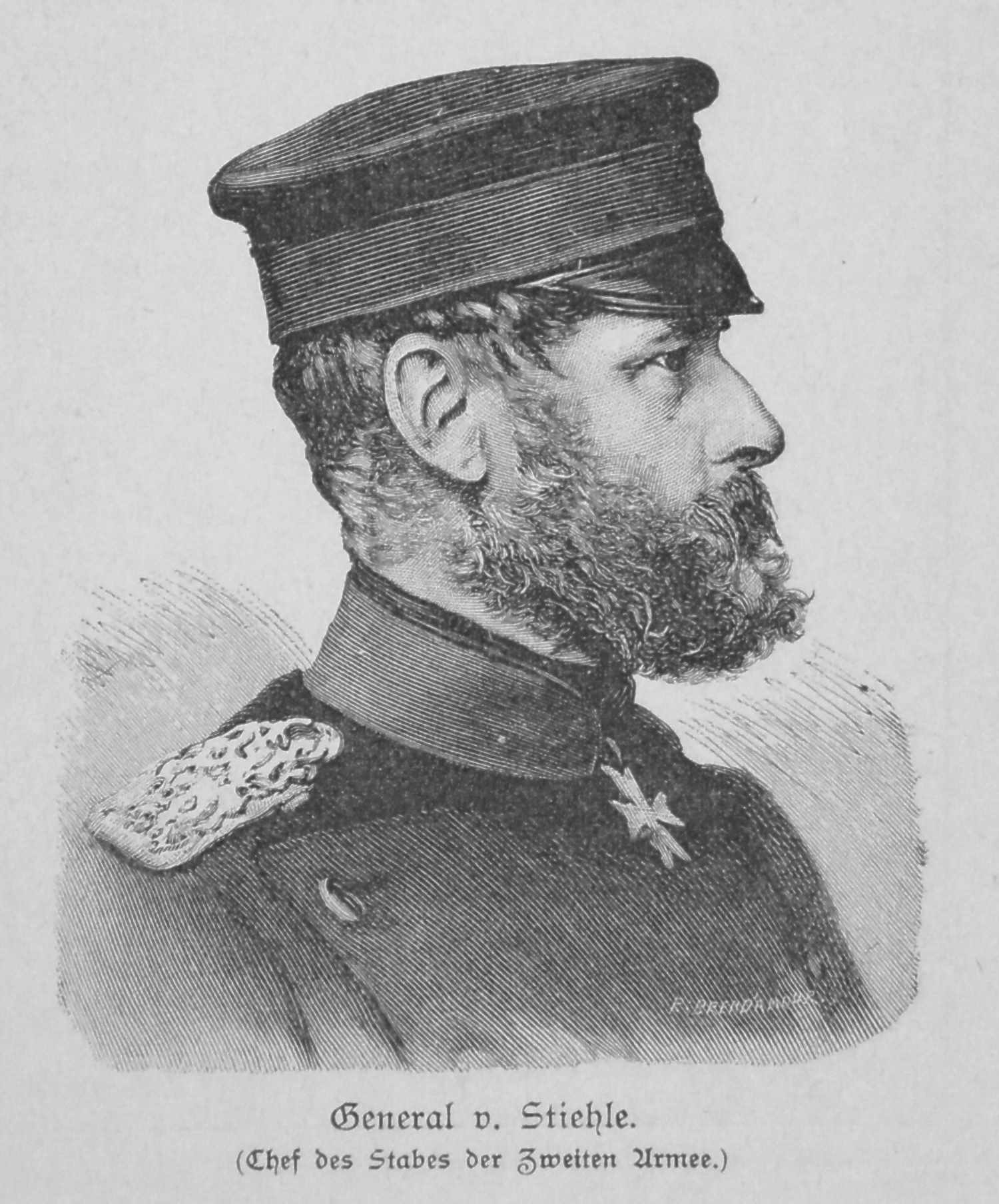 general von Stiehle